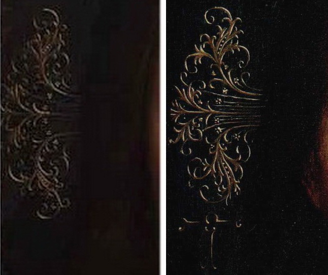 Comparison of two fragments of paintings of the Vera Icon ("True Image") by or after Jan van Eyck. Left: a detail of the halo in the painting in the collection of the Alte Pinakotek in Munich. Left: the same detail in the painting in the Gemäldegalerie in Berlin. Montage by Kleon3. Both images uploaded to Wikimedia Commons with a free license: File:Jan van Eyck, Vera Icon (Alte Pinakotek, München).jpg File:Van Eyck (workshop), Holy Face, 1438, Berlin.jpg